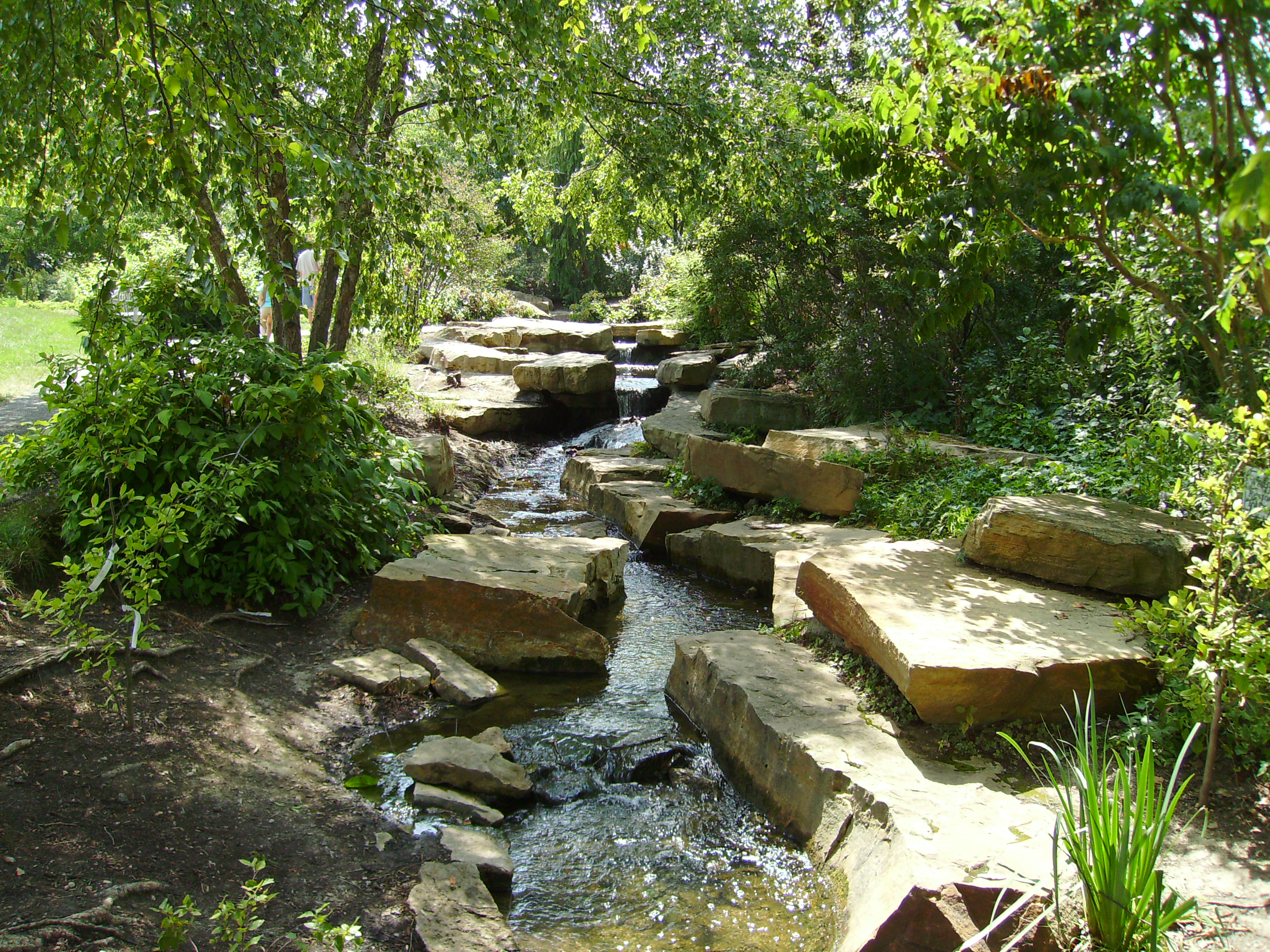 Picture of a stream at Cox Arboretum MetroPark in West Carrollton, Ohio.